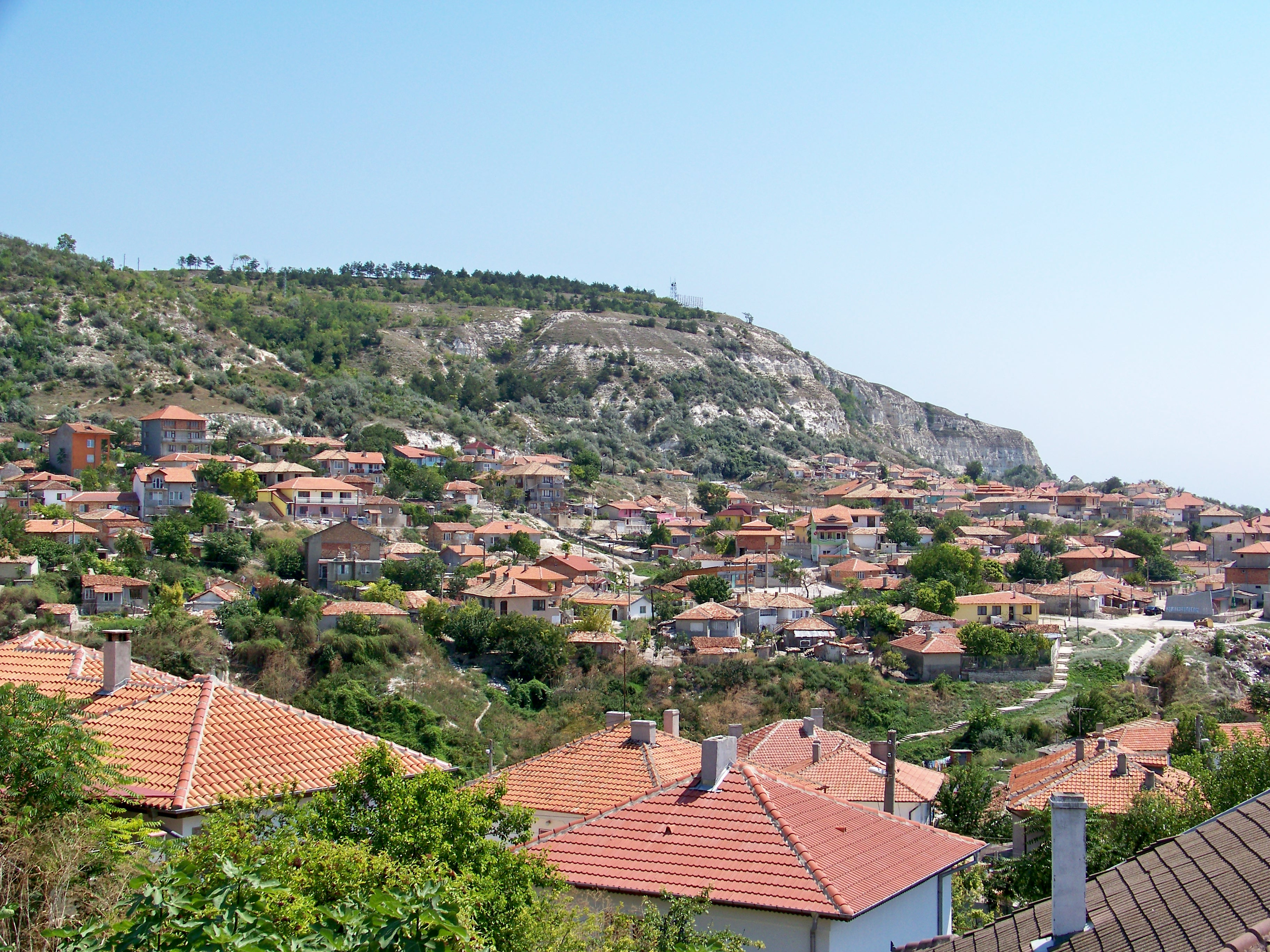 Is a Black Sea coastal town and seaside resort in the Southern Dobruja area of northeastern Bulgaria.